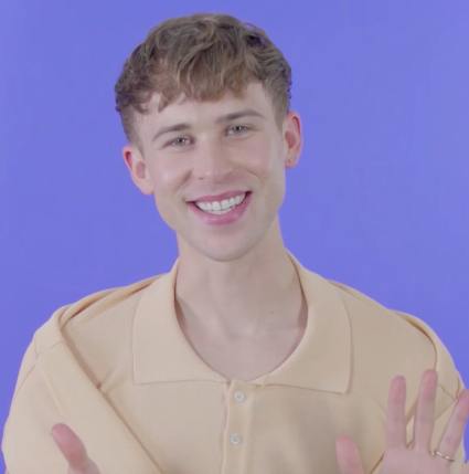 Tommy Dorfman 2018